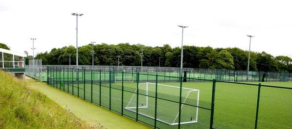 Weetwood Playing Fields at The University of Leeds. Photo taken by George Rankin on 14th July 2007 and available at: Website states "licensed for reuse under this Creative Commons Licence."